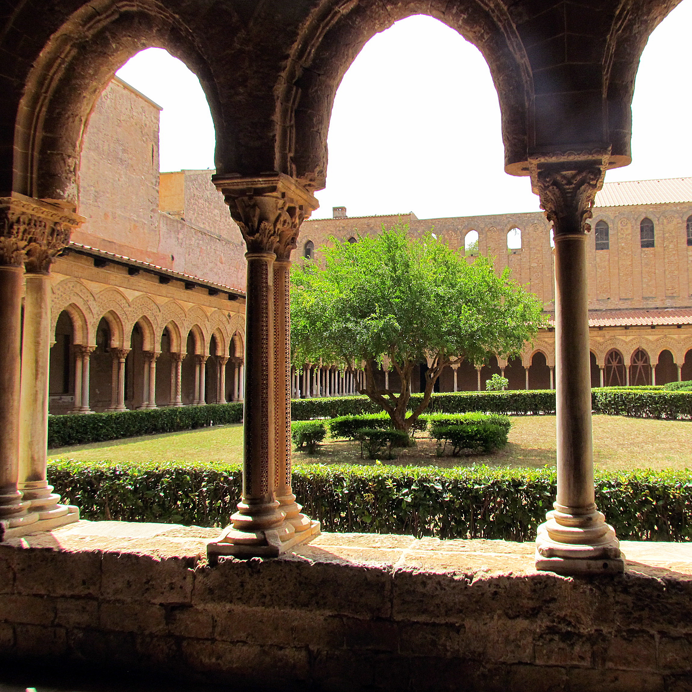 Monreale Cloister